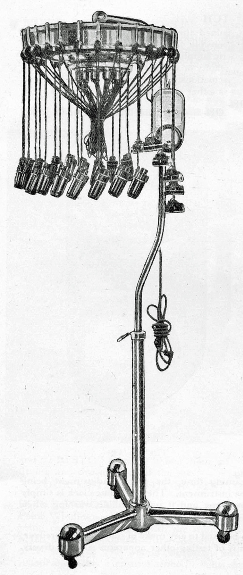 This is a state-of-the-art permanent-waving machine manufactured by Icall in 1934. It had Bakelite heaters (15 tubular and 6 croquignole, a timer which compensated for the nature of the hair and spring-loaded cables which relieved the weight of the heaters. Even the wheels were designed to avoid hair getting picked up from the salon floor.